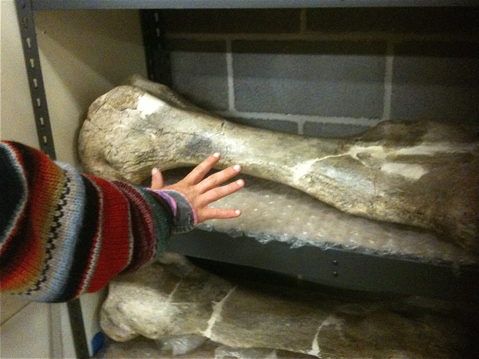 A mastodon tibia viewed at the University of Montana Paleontology Center, on National Fossil Day 2011.